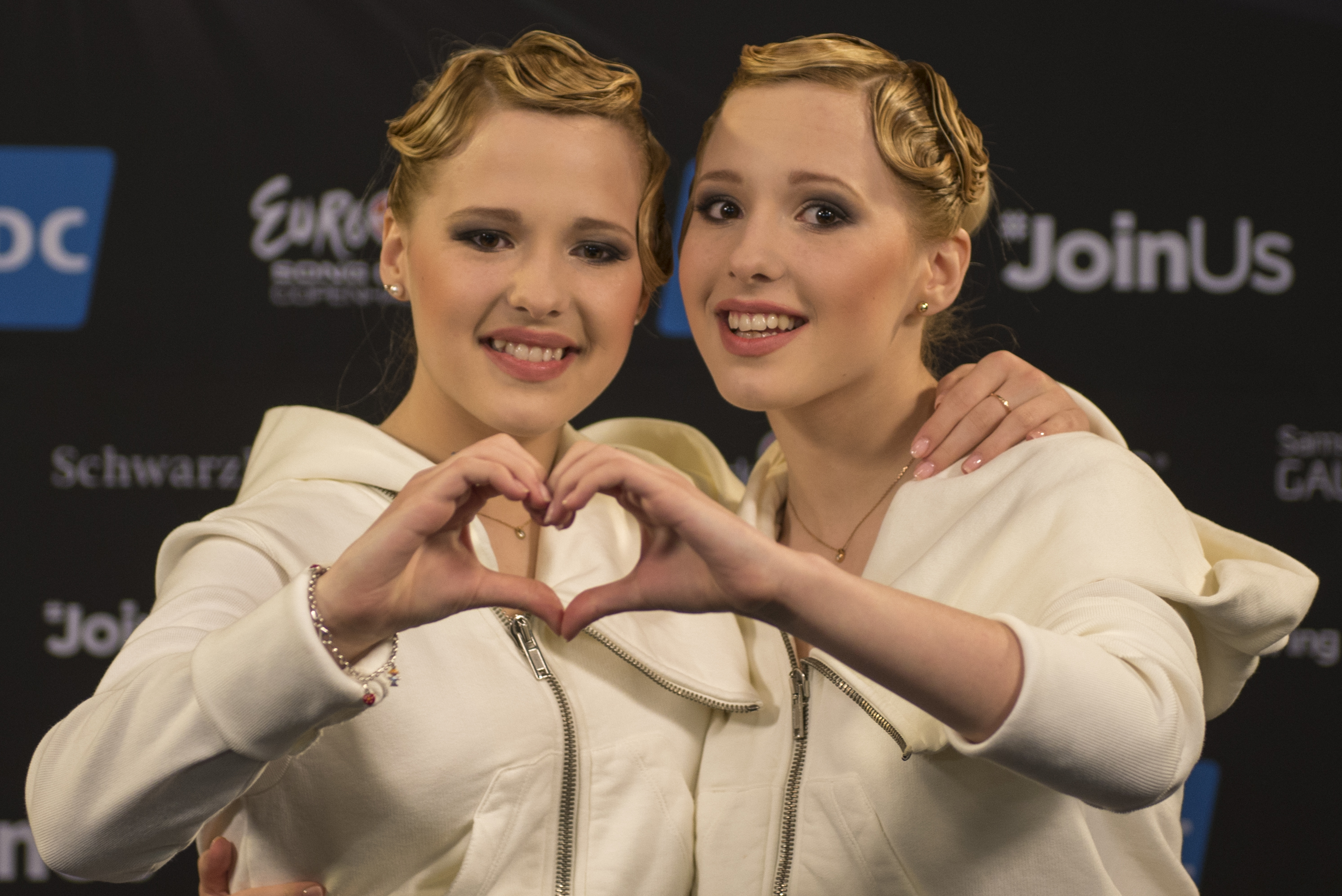 The Tolmachevy Twins at a Meet & Greet during the Eurovision Song Contest 2014 Copenhagen. (Help translate this text)